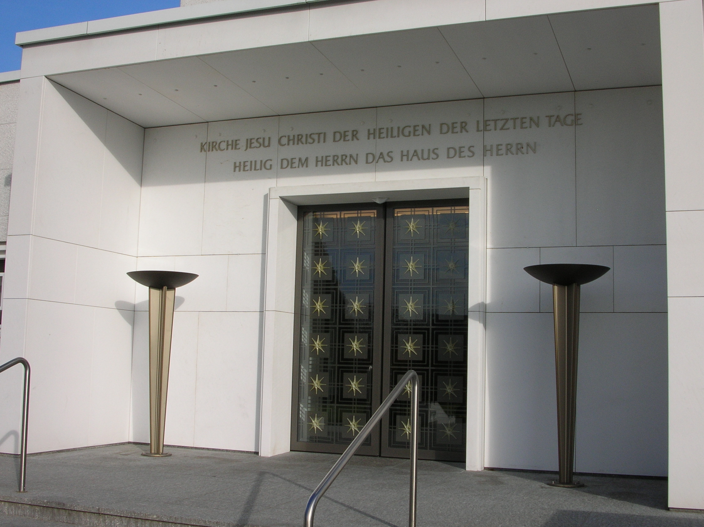 Berne Switzerland Temple, door